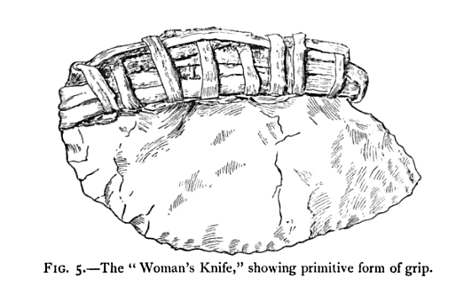 19th century knowledge primitive tools womans knife